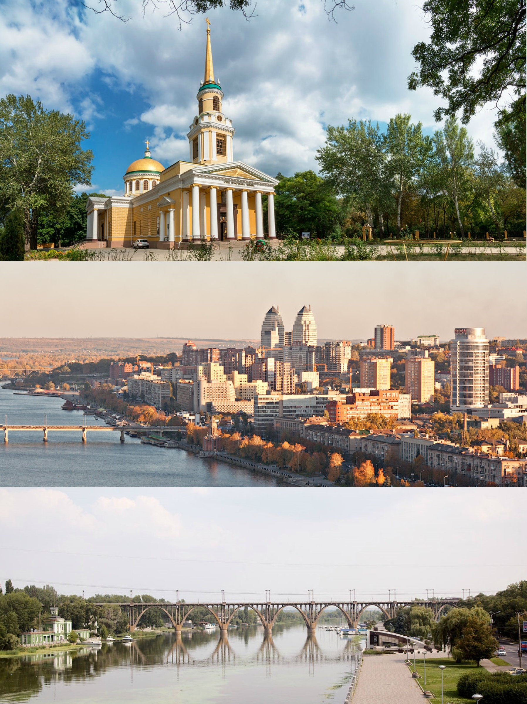 Montages of cities in Ukraine. The picture shows a few iconic images of Dnipropetrovsk. A total of five images were used (accessed via Wikimedia Commons) to make this image.